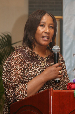 Makaziwe Mandela, daughter of Nelson Mandela, in a press conference, talking about AIDS, during Miss World 2007 in Sanya, China